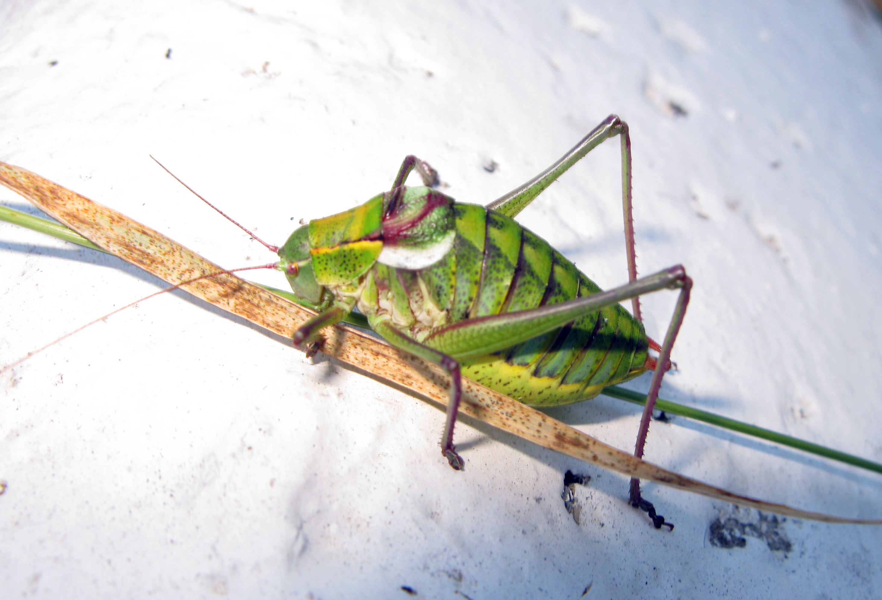 Isophya taurica